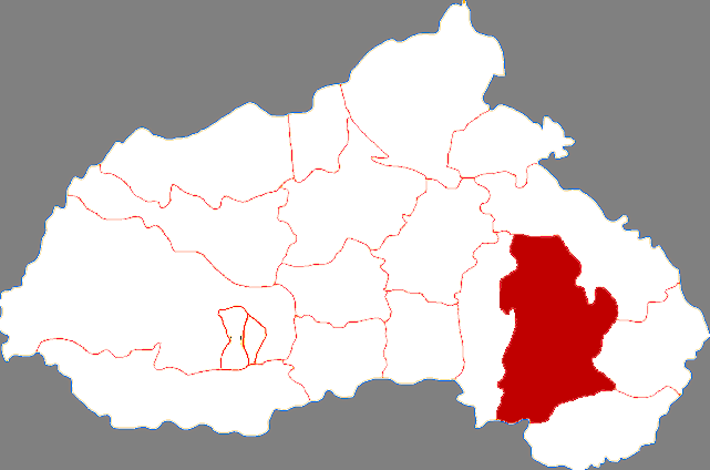 Location of Wei county in Xingtai City, China